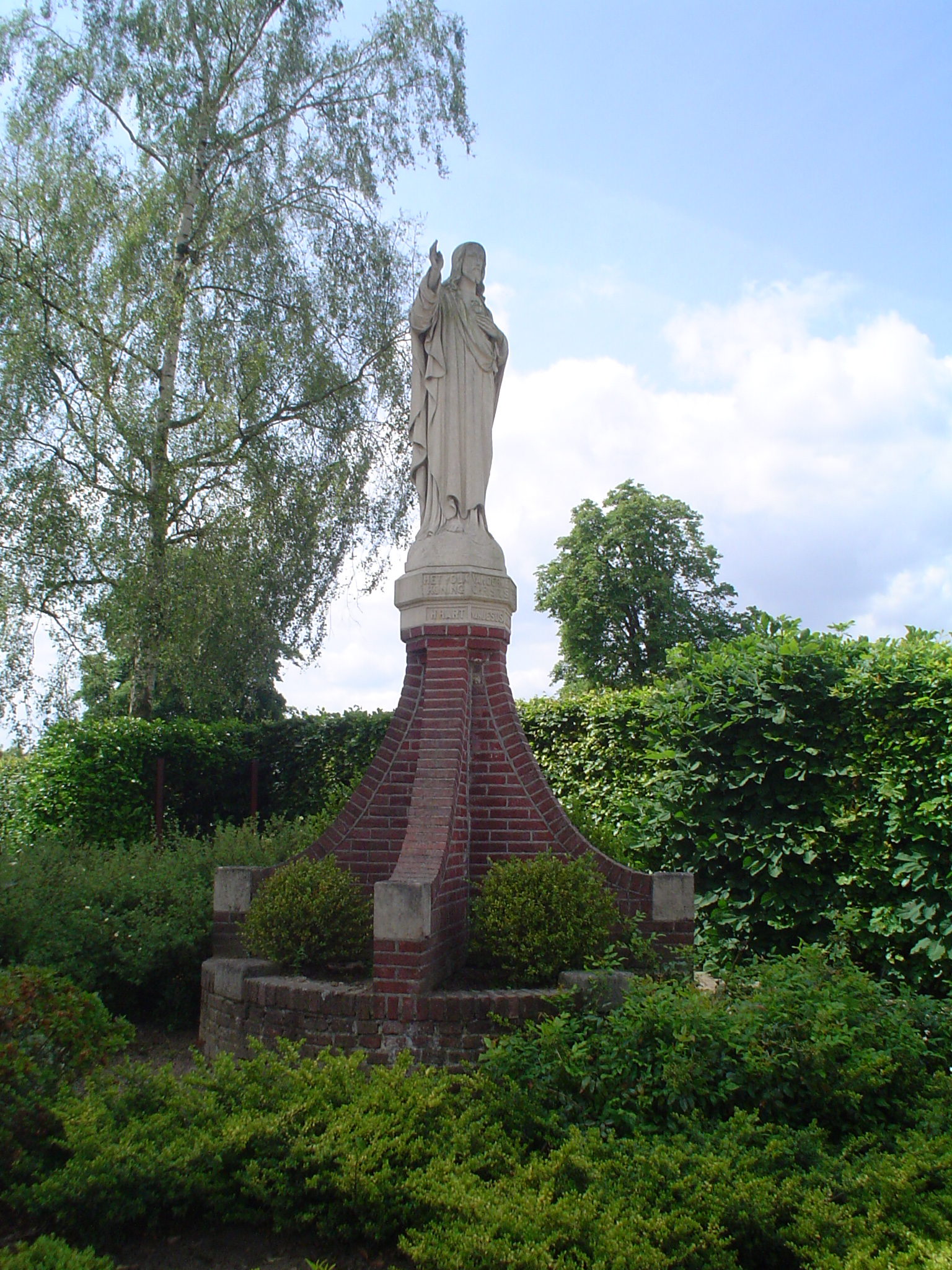 Statue of Sacred Heart of Jesus Christ. Located in front of the St. Jan de Doperkerk in Oerle, Veldhoven, the Netherlands. Unveiled on March 30th, 1921.